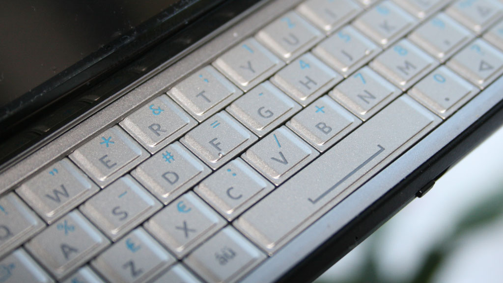 Sony Ericsson Xperia X2 - qwerty keyboard